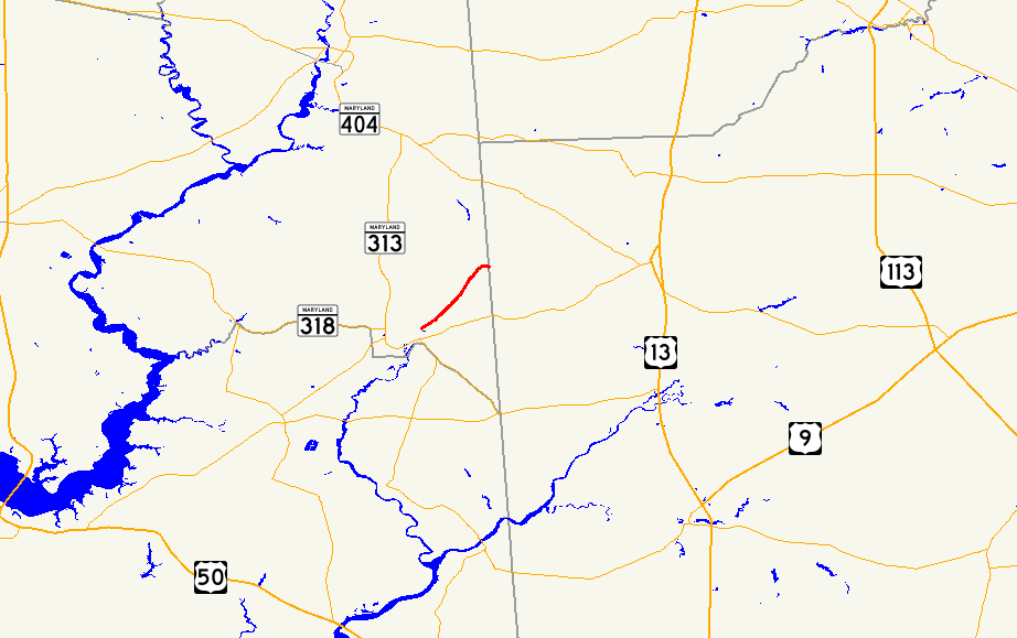 Map of Maryland Route 306